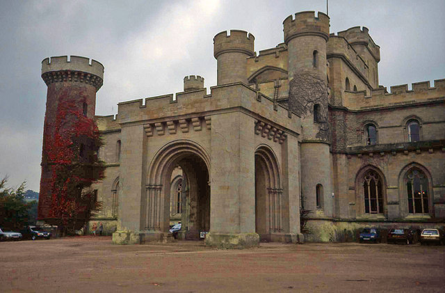 Front entrance to Eastnor Castle. Home of the Hervey-Bathurst family and open to the public. Also used for weddings, corporate events, film sets, etc. The funding of the castle came about via a marriage between the Cocks family (banking wealth of the Biddulph Bank, now incorporated into Barclays Bank) and the Somers family (large inheritance of Lord Chancellor Somers). The 1st Earl Somers begin the construction of the castle in 1810. From a distance, this Norman Revival building was intended to create the impression of a medieval fortress guarding the Welsh Borders (see 447176). Further construction and embellishments were made through to the 1870s. Well worth a tour of the house with its fabulous interiors.